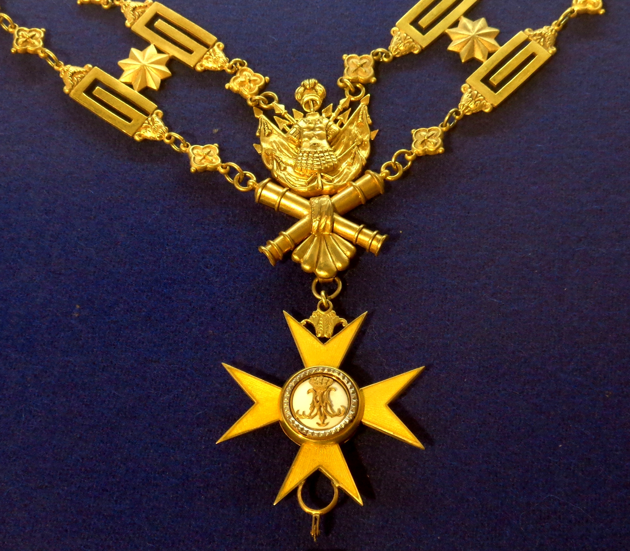 Order of the Golden Spur, collar and badge. Vatican. The exhibition of the Tallinn Museum of Orders of Knighthood, Estonia.